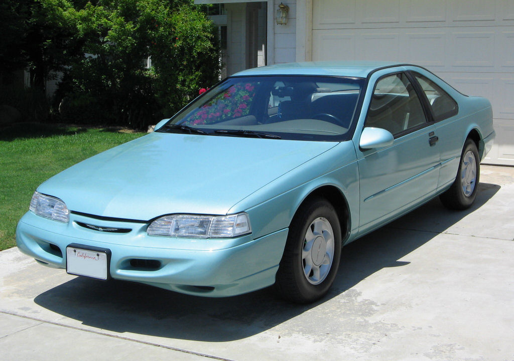 1994 Ford Thunderbird LX in Light Evergreen Frost Clearcoat Metallic with clear corner signal lights.